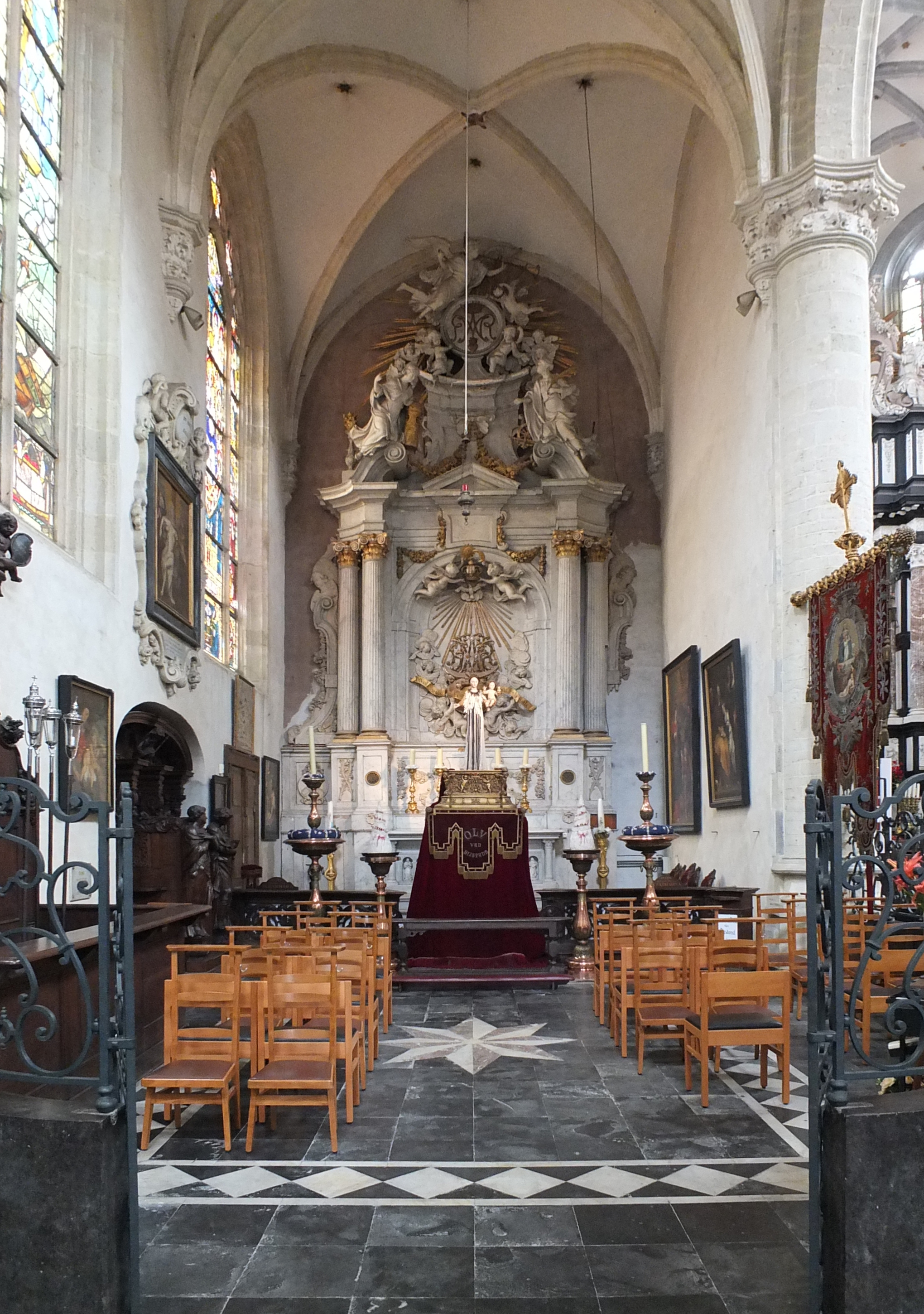 The chapel of the Virgin Mary in Saint Andrew's Church at Antwerp was built in gothic style in 1678. It represents the special attention paid by the Counter-Reformation to the Virgin Mary. The Madonna statue is a polychromed wood sculpture in manieristic style. It is known as Our Lady of Assistance and Victory. The late baroque altar (1729) is made of painted wood. It actually serves as a backdrop for the Madonna statue.